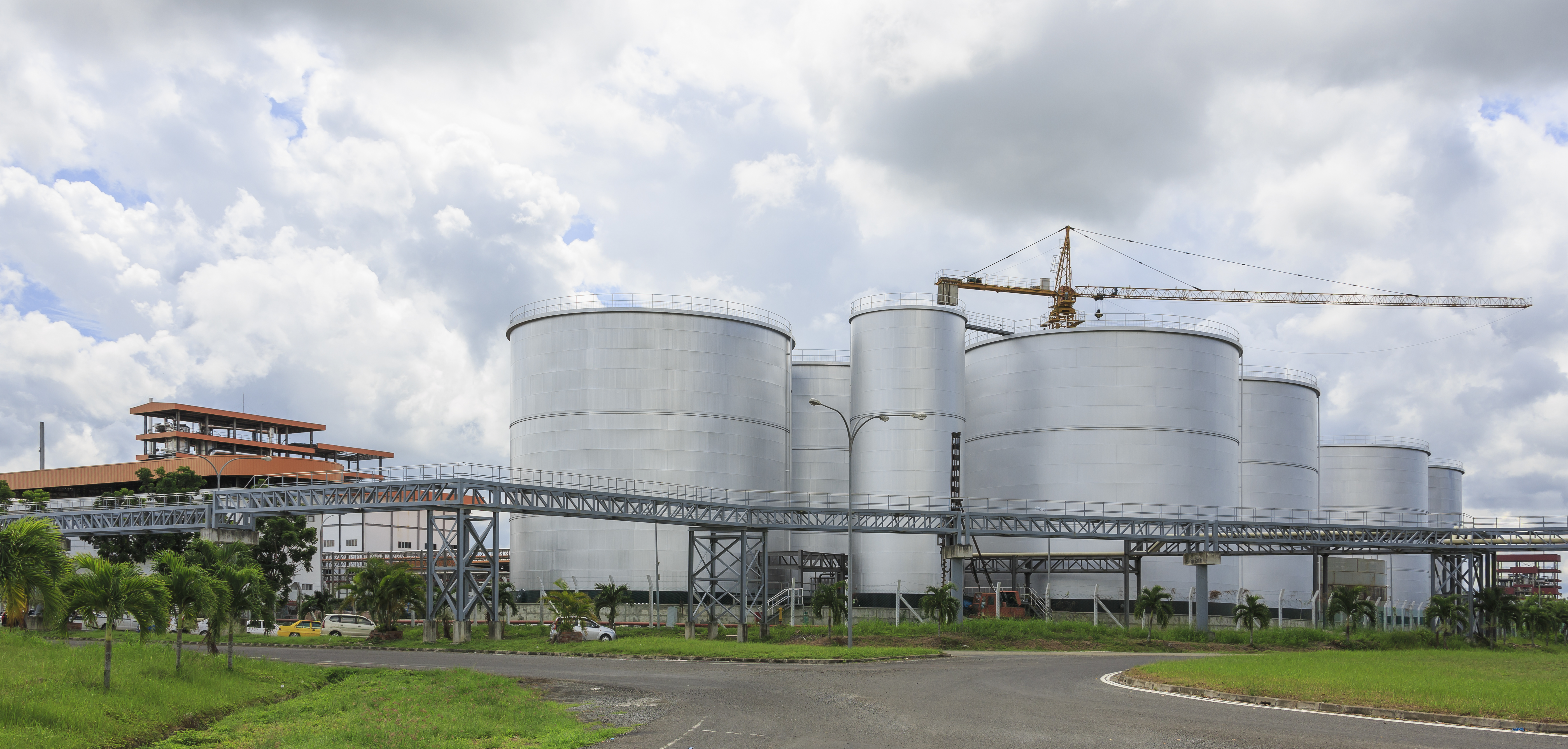 Lahad Datu, Sabah: Mewah Datu Sdn Bhd, a palm oil refinery at Lahad Datu POIC (Palm Oil Industrial Cluster)